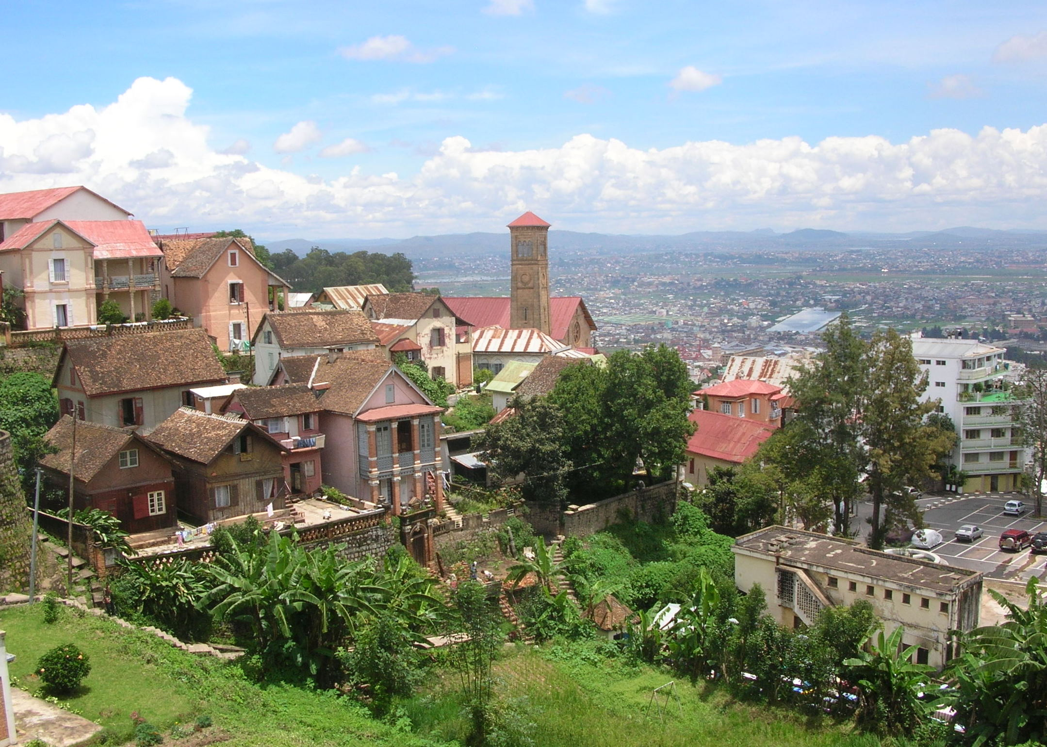 Antananarivo, Madagascar